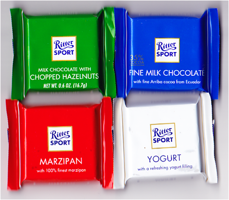 "Ritter Sport Minis": Chopped Hazelnuts, Fine Milk Chocolate, Marzipan and Yogurt